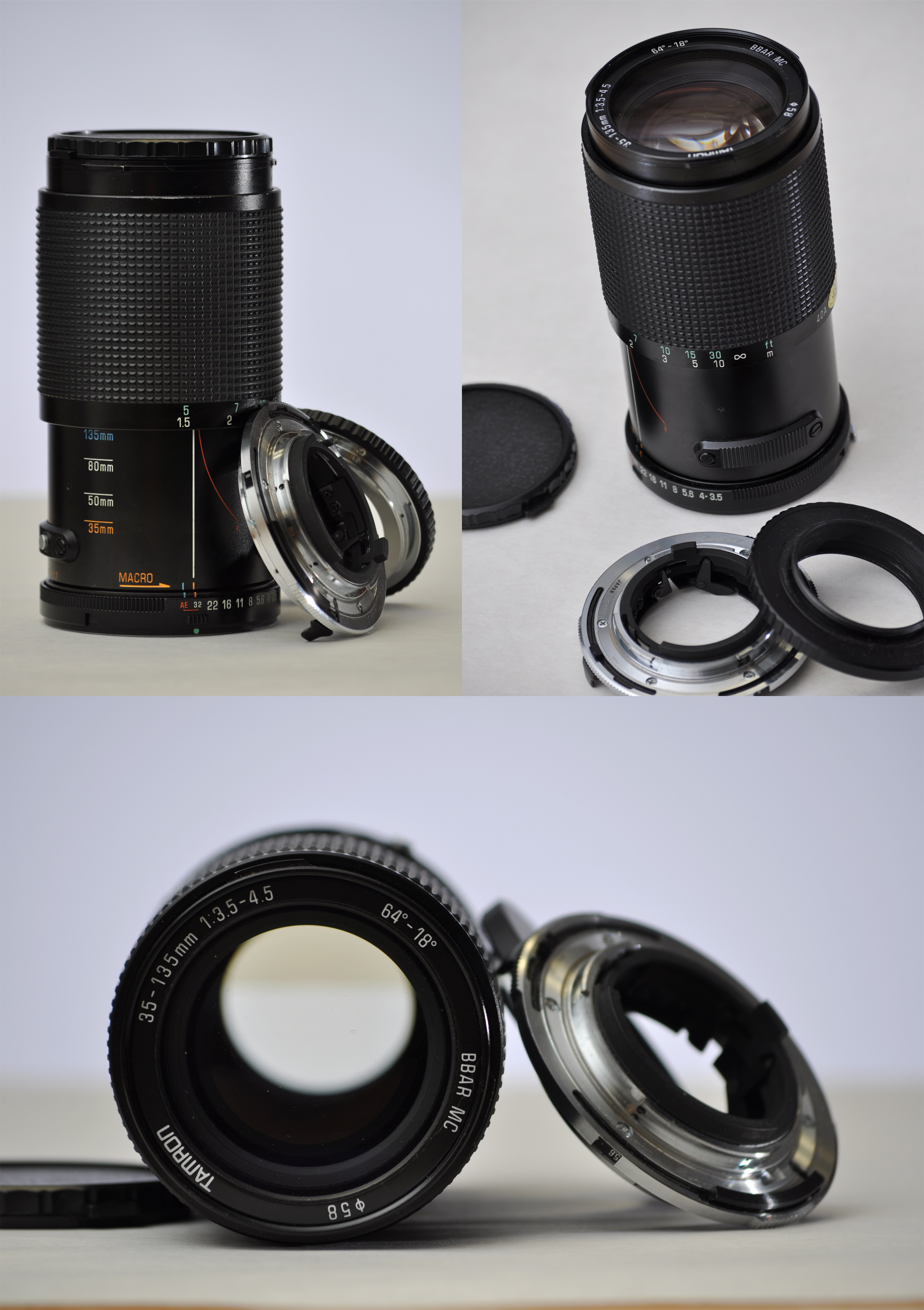 I shouldn't love this lens. Every card in the deck is stacked against it: It's a zoom. It's a superzoom (wide to tele). It's one of the first of its kind. It's old as dirt. It doesn't meter on my D5000. It's manual focus. However, it's probably my favorite lens. I have a fondness for my KMZ Helios 58 f/2, but this lens... I get out and use this lens. I love it for its character. It flares pretty badly, but it does so in an aesthetically-pleasing way. My 18-55 VR Nikkor is nearly impossible to make flare, and when it does, it ain't pretty! It has excellent bokeh characteristics, and its color reproduction is superb. It's not the sharpest lens in the world, but it's far from bad. It will quite happily fit on just about any camera, thanks to its innovative adapter system. I personally can fit it on my film Nikons, my digital Nikon, my Zenit-E and my Cosina, and I used it frequently with my EOS Digital Rebel back when I had that. I love this lens. See some of the things I've shot with this lens (and remembered to tag!) View Large if you want to eat a pixel-y death. Info on this lens at